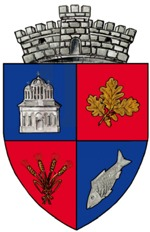 Coat of arms of Gruiu commune, Ilfov County, Romania